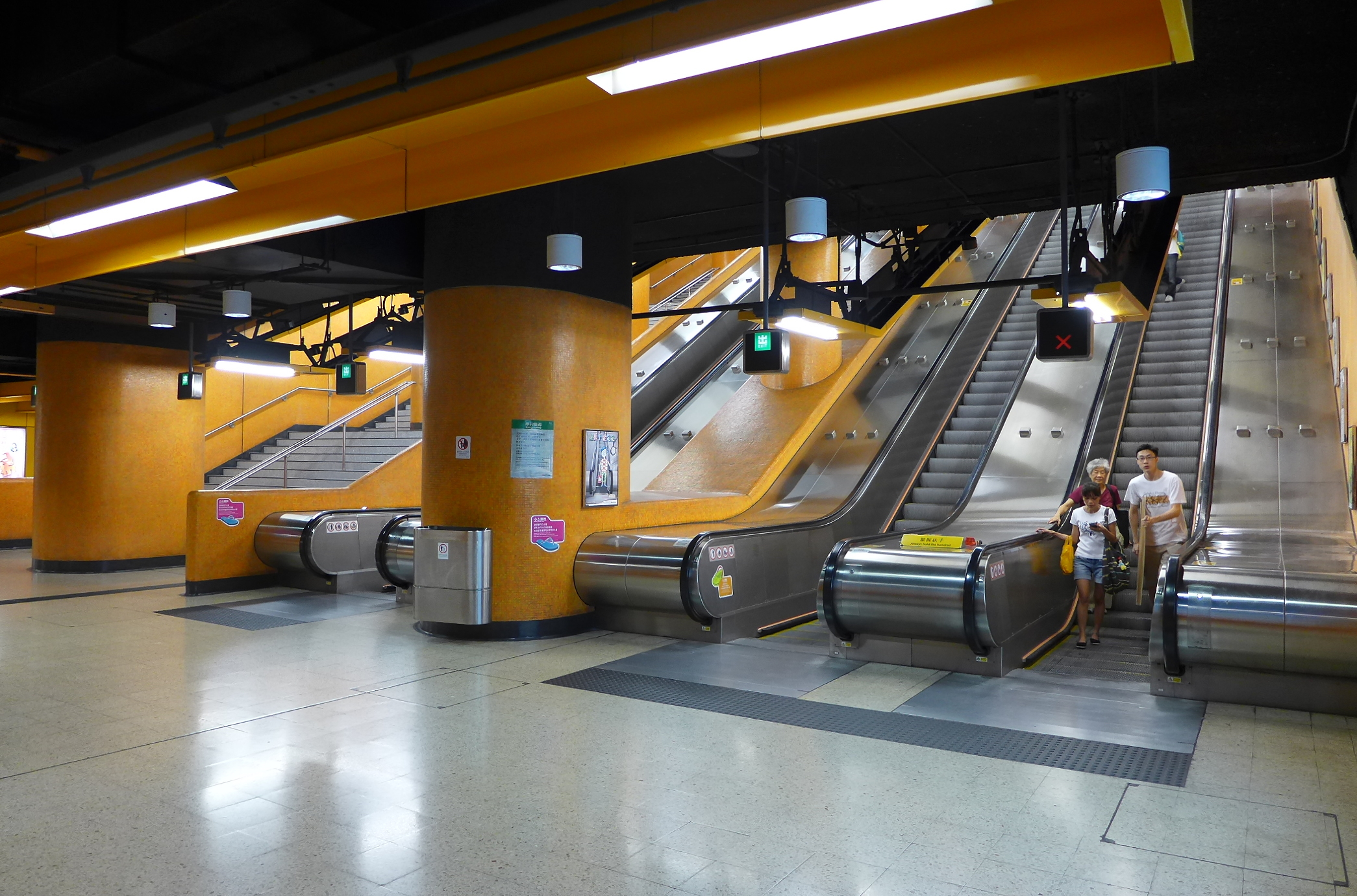 Sai Wan Ho Station Escalator